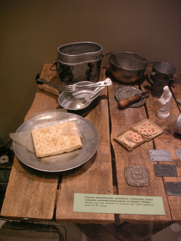 made during a summer day in Warsaw's Museum of the Polish Army; A collection of daily-use utensiles of POWs from various WWII POW camps, mostly Stalag Murnau